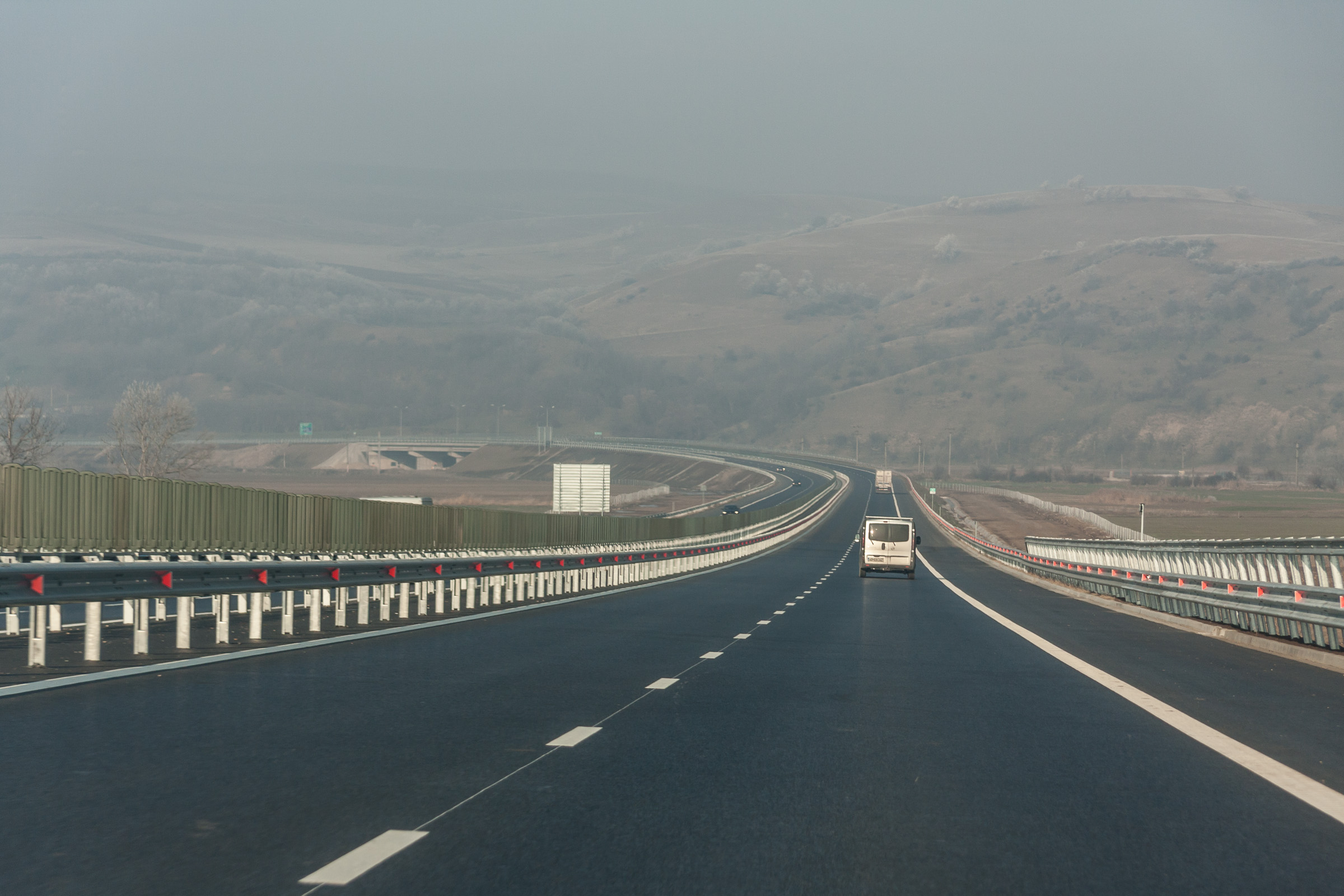 Autostradă 1 Orăştie between Sibiu direction OrăştieRomână: Autostrada 1 Orăștie între Sibiu direcție Orăștie